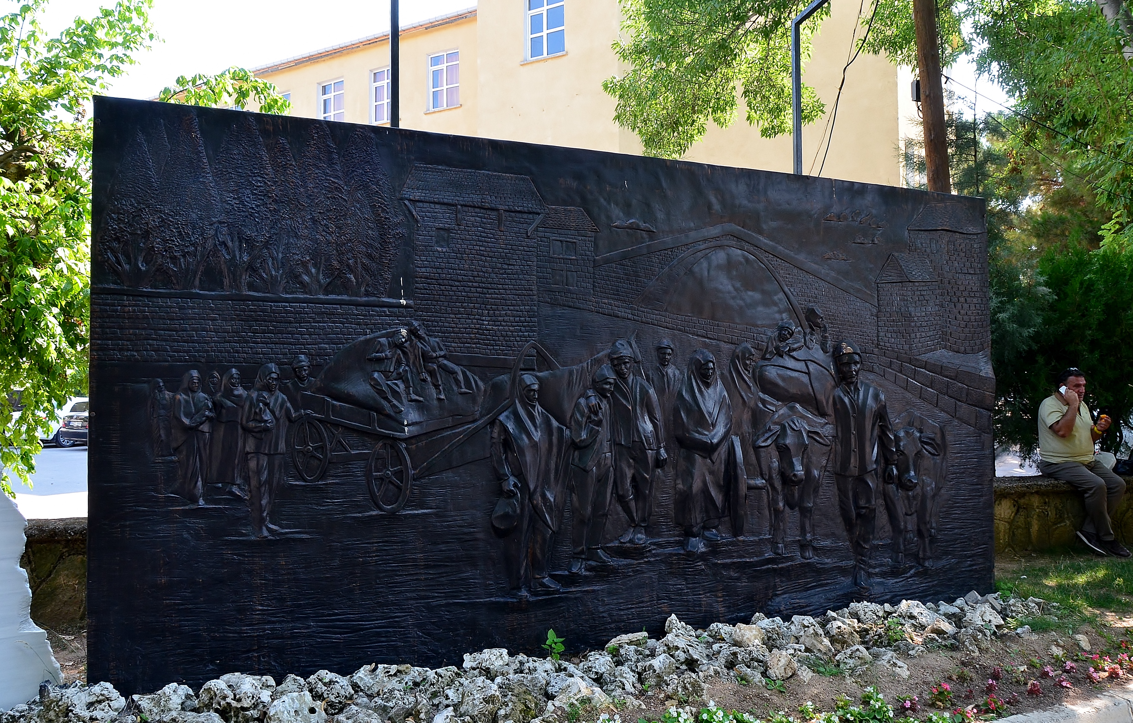 Balkan Wars Memorial relief in Kırklareli, Turkey